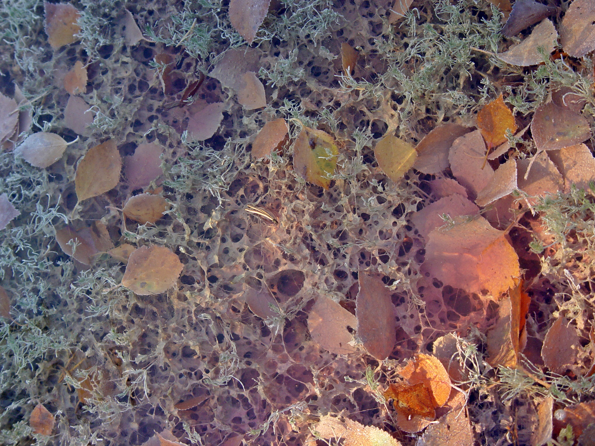 Sulphur springs in Great Kemeri bog, Tukums district, Latvia, 2 November 2005